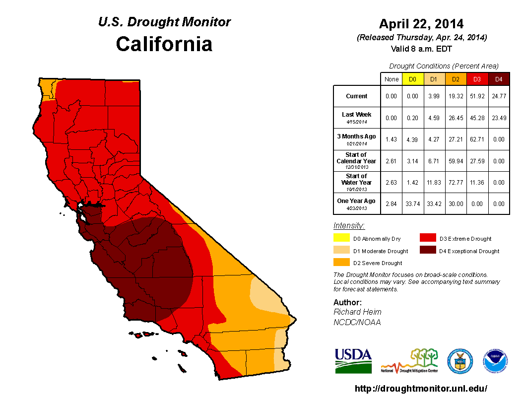 Severe or Exceptional Drought Over 75% of California, Arp 22nd 2014